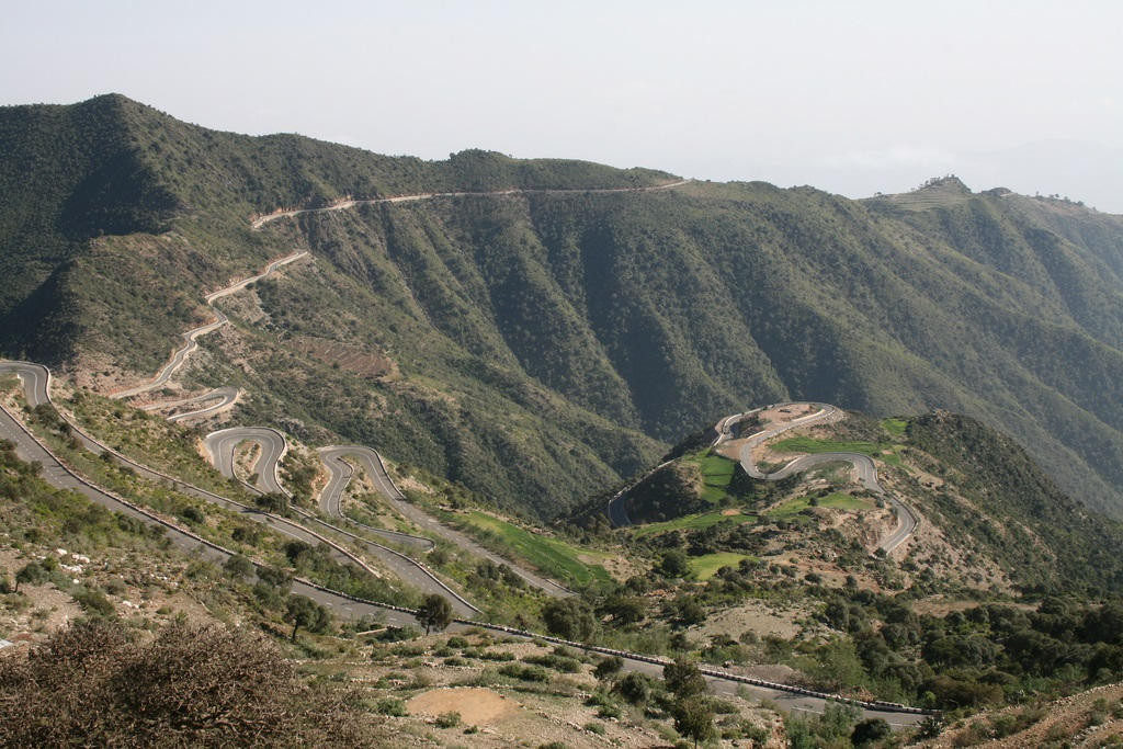 Eritrean mountai road archietcture, road to Massawa